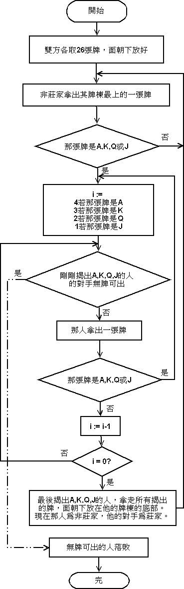 Beggar my neighbor (a kind of poker games) process 中文（台灣）: 搶鄰居遊戲流程